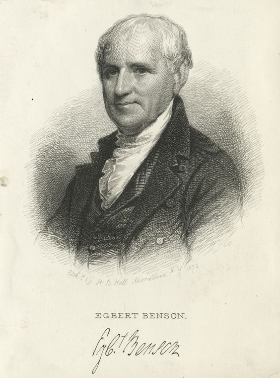 Depicted person: Egbert Benson – American politician